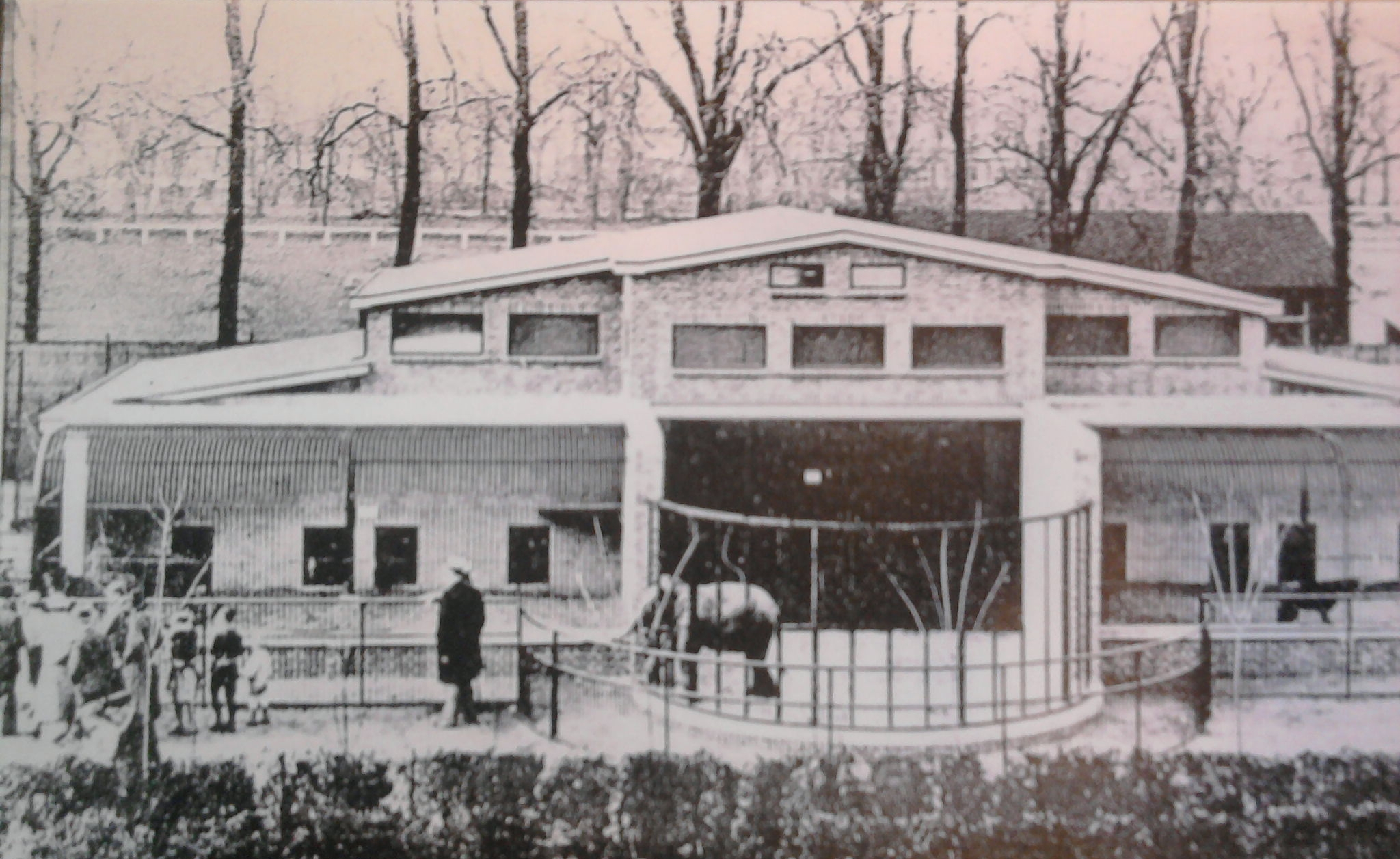 Old place for animals.